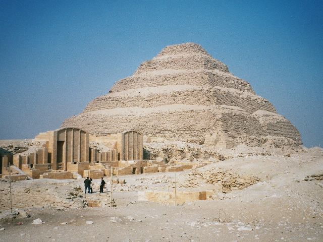 Step pyramid of Djoser, Saqqara, Egypt. Photo taken by Hajor, December 2002.